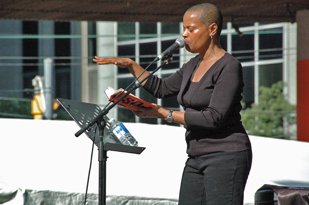 American author Sapphire, at the 2009 Toronto International Film Festival